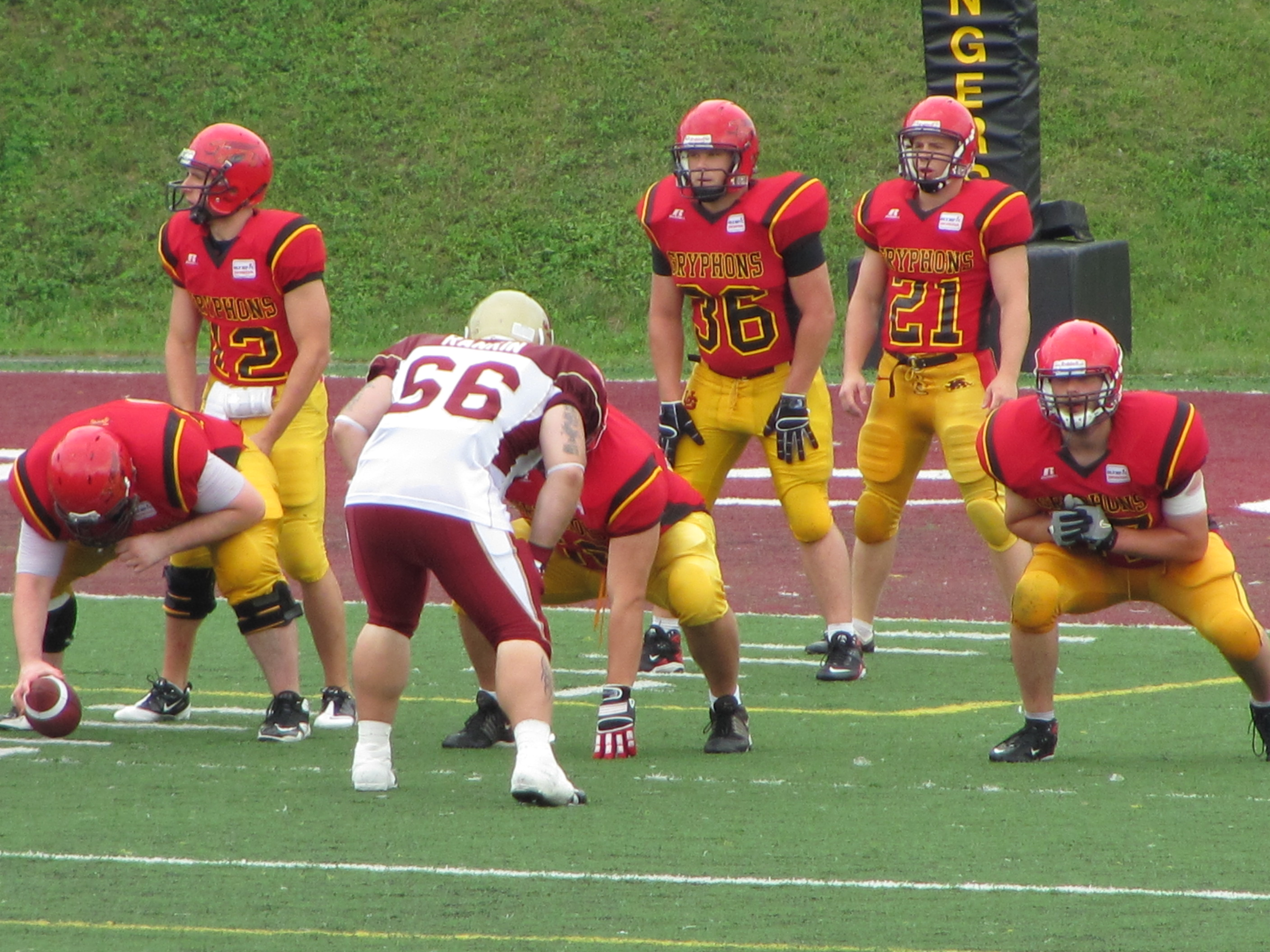 Guelph Gryphons at Concordia Stingers (August 26 2010)